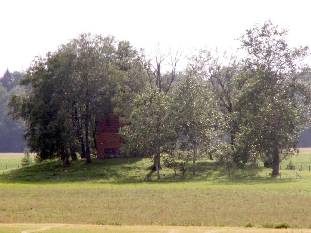 Kybarčiai, Šiauliai district, Lithuania